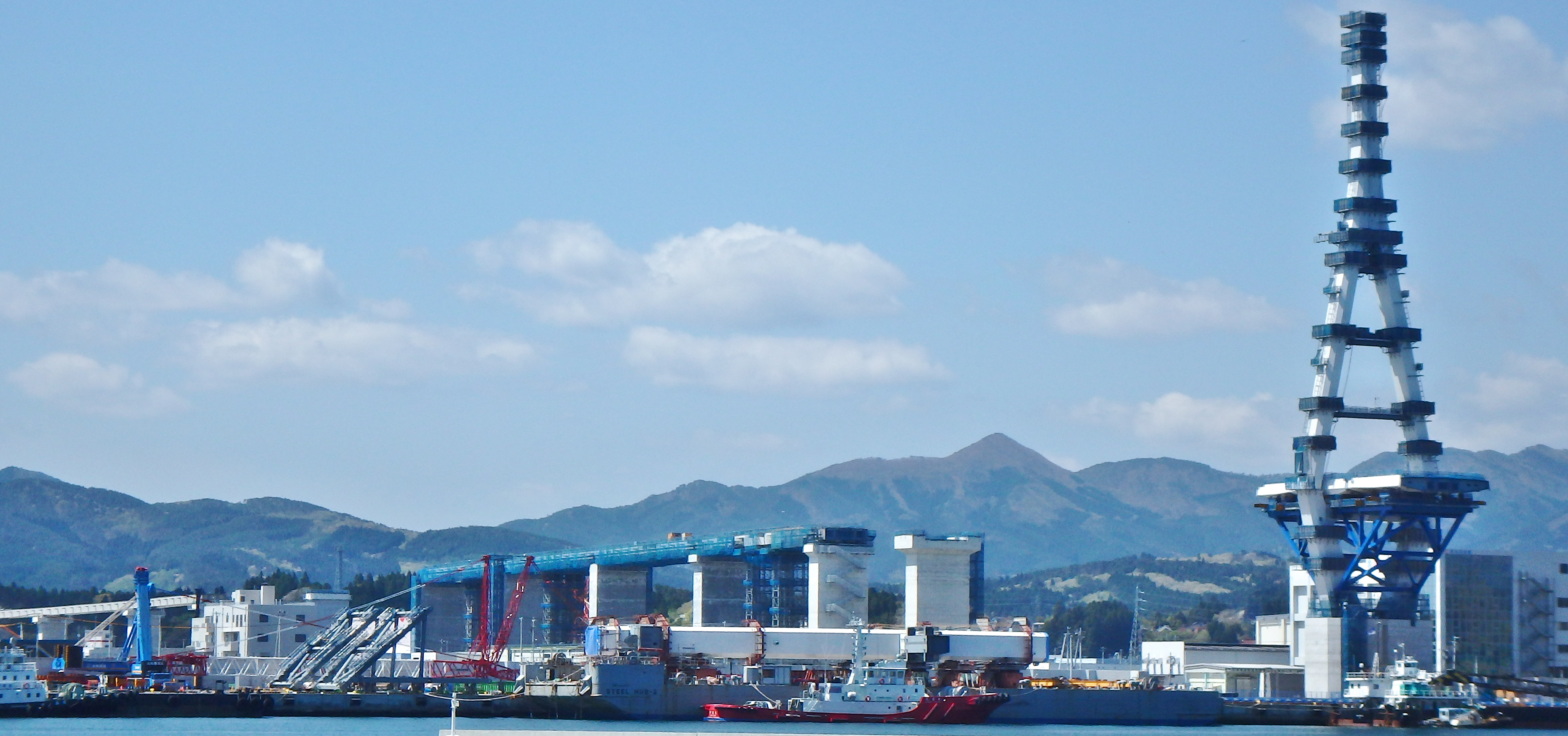 Kesennuma-bay Crossing bridge, Miyagi Prefecture,Japan